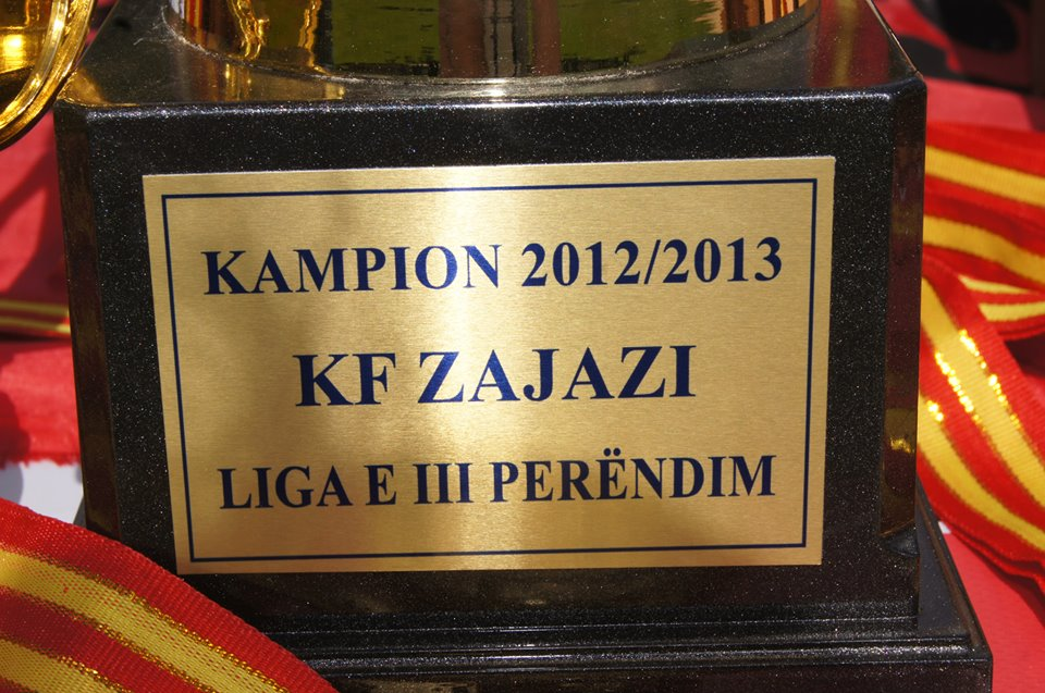 Champions Photo